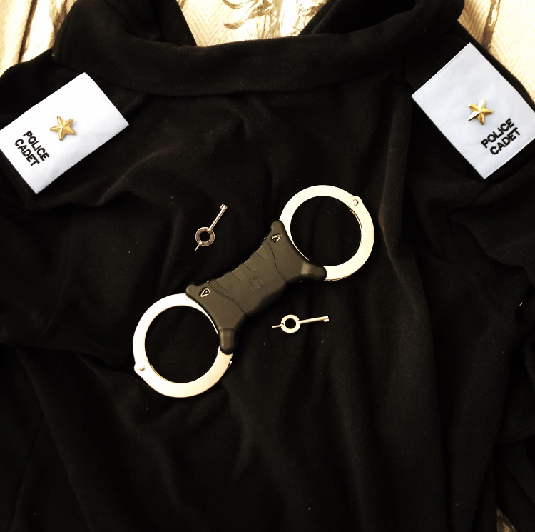 Leicestershire Police Head Police Cadet Epaulettes on Jumper with Handcuffs